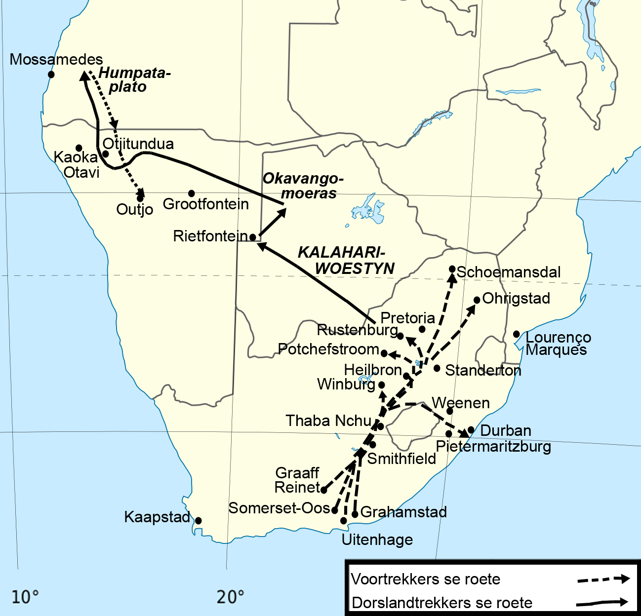 Map Of The Route Of The Dorsland Trekkers. Source: Map Of The Route Of The Thirstland Trekkers, which is taken from The Great Trek by Oliver Ransford (1968)